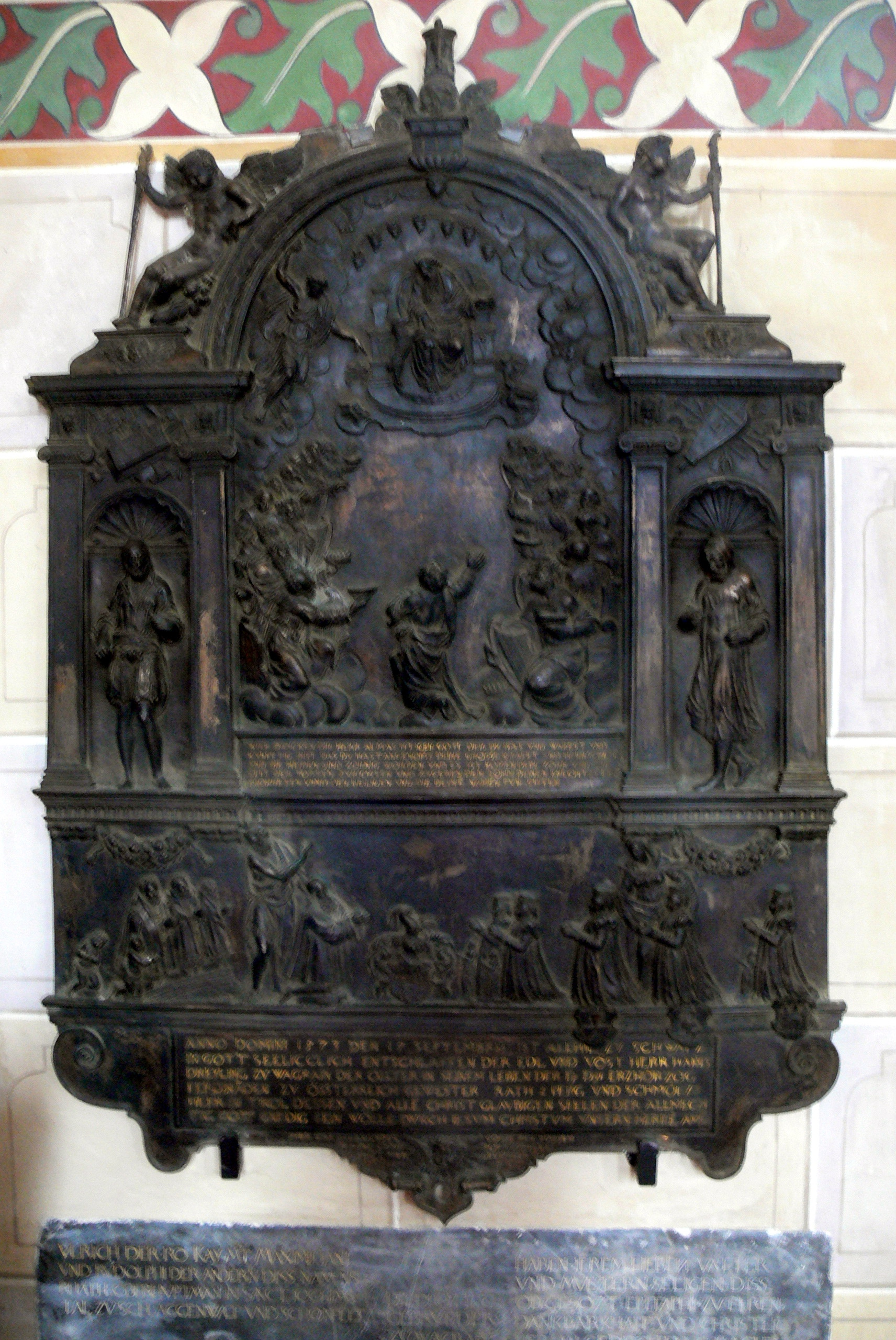 Schwaz ( Tyrol ). City parish church: Epitaph for Hans Dreyling ( 1573 ) by Alexander Colin and Christoph Löffler.